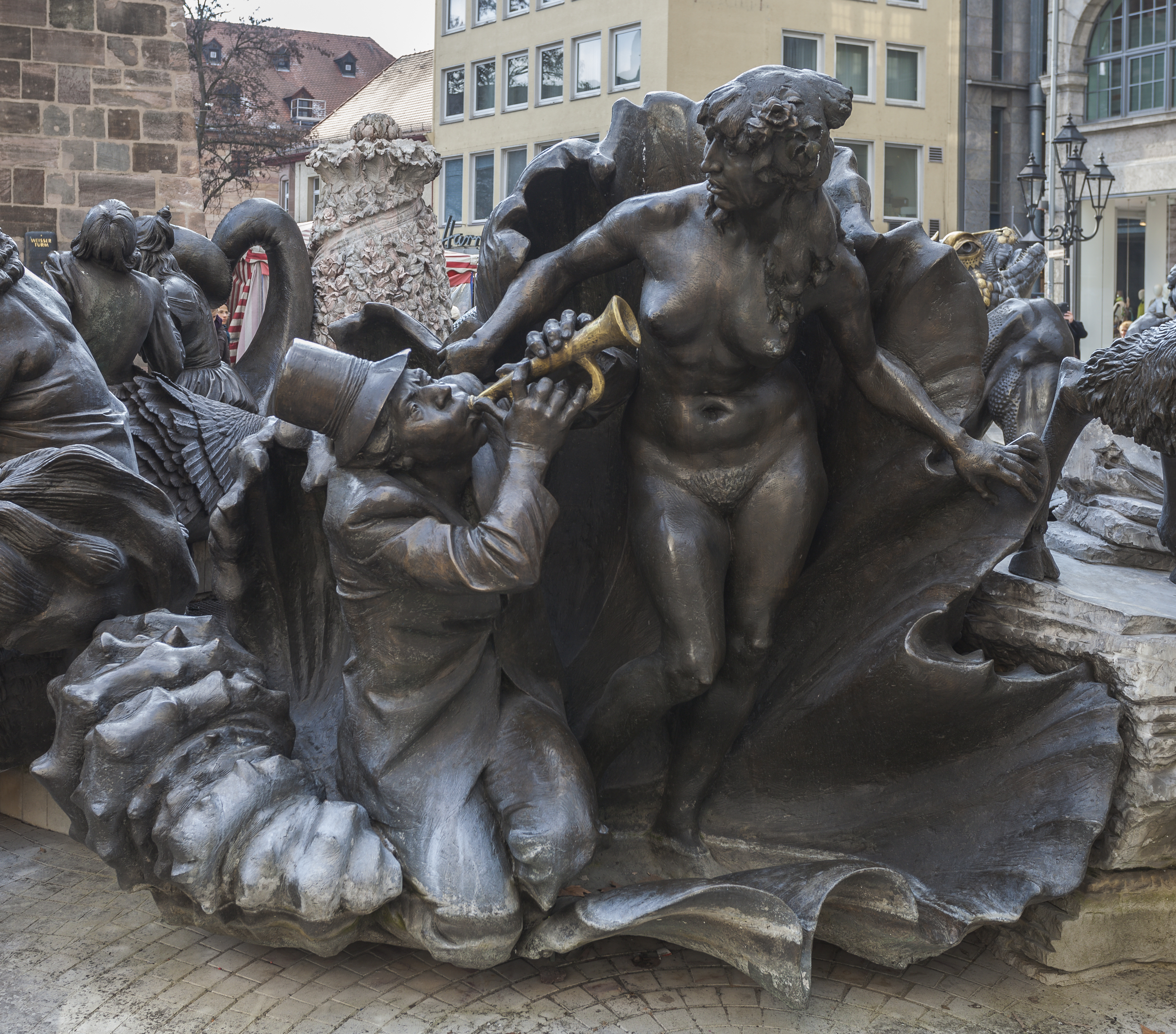 Marriage Roundabout (Jürgen Weber, 1984), Nuremberg, Germany